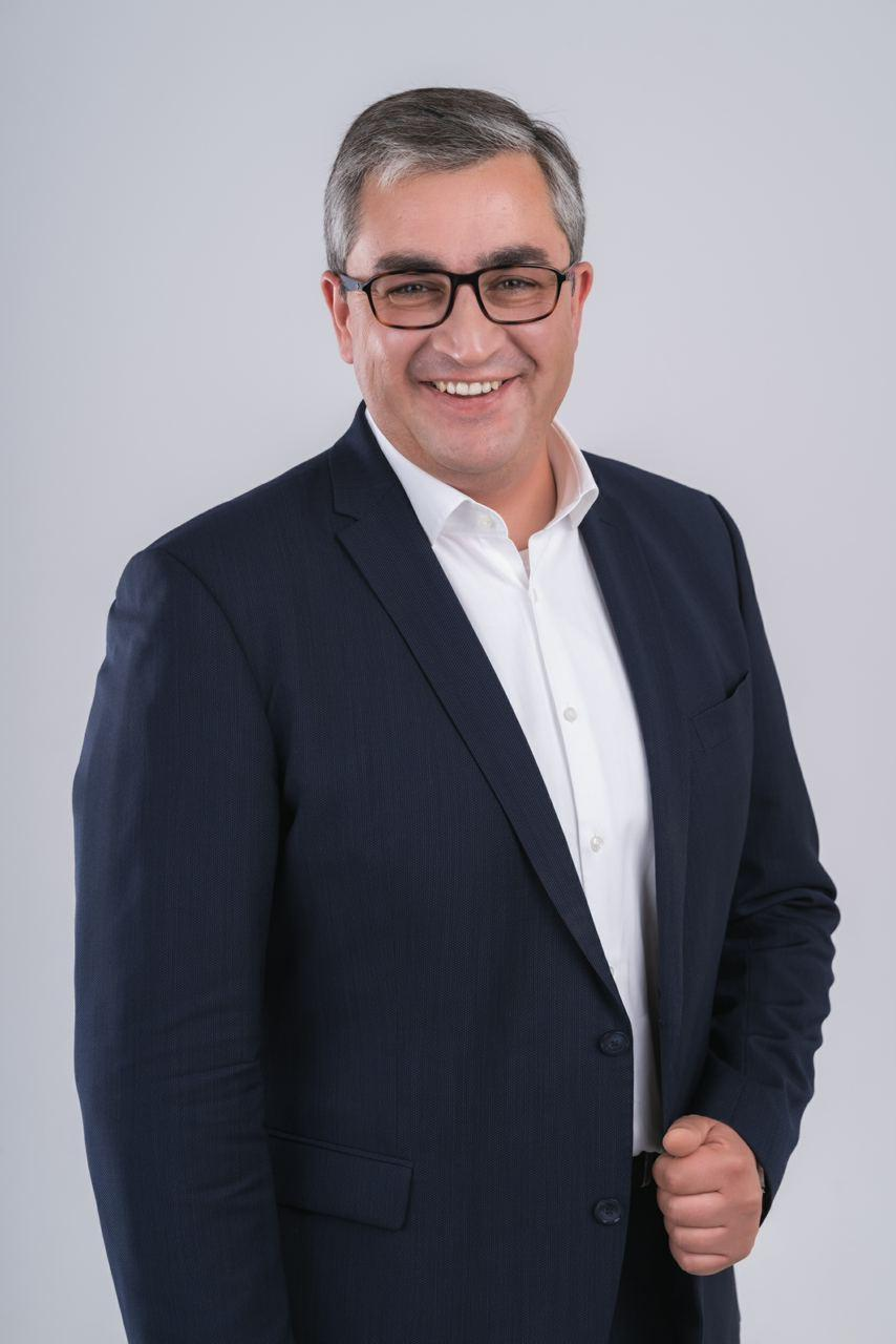 Vladyslav Skalskyy